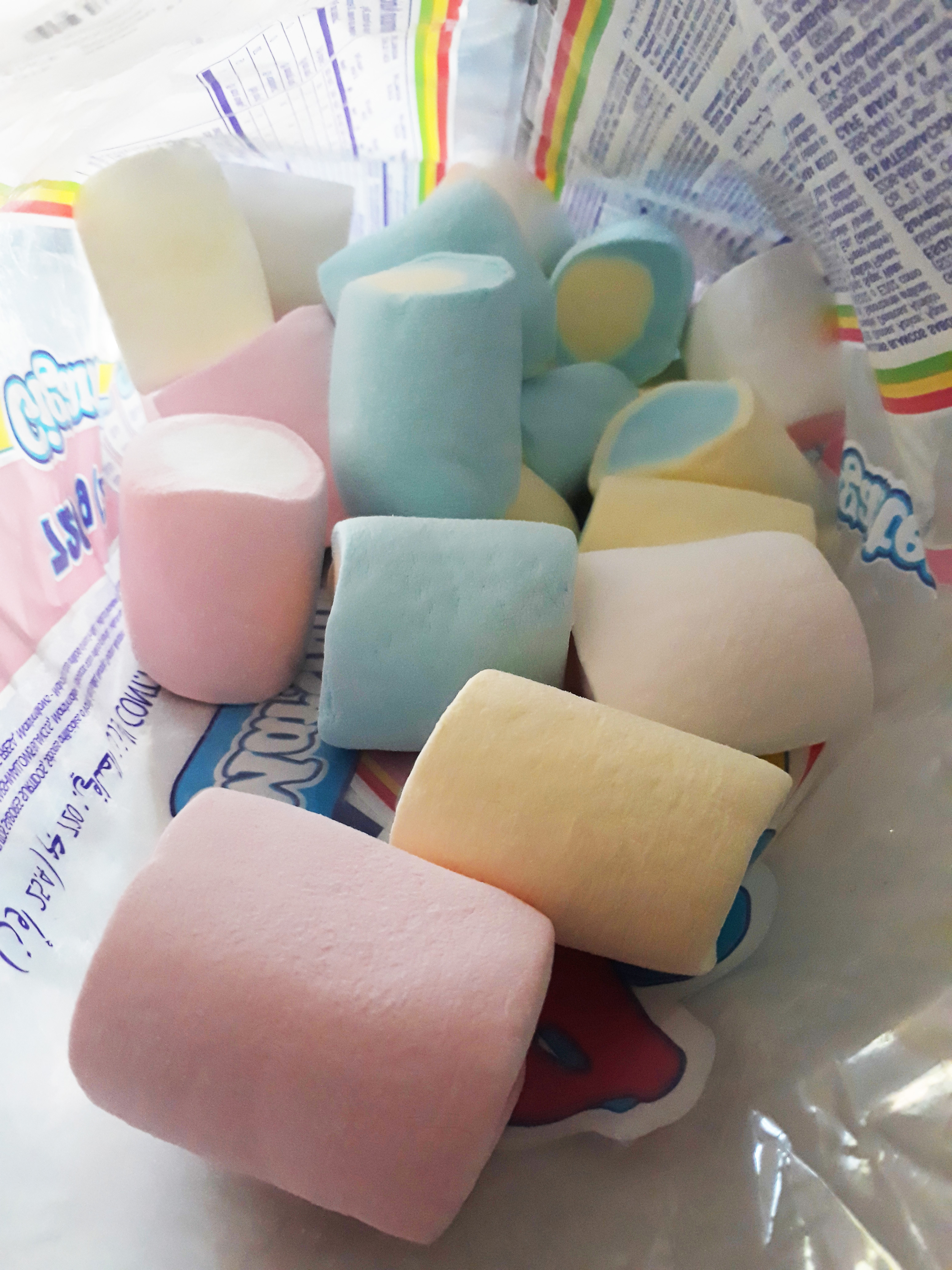 Marshmallow bag low.